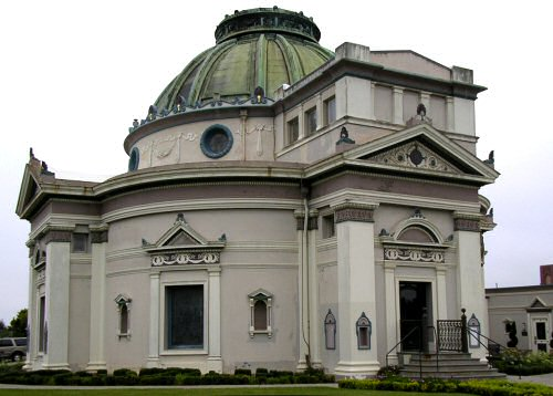 Columbarium of San Francisco, picture taken and uploaded by Hugh Young